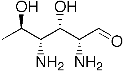 chemical structure of bacillosamine